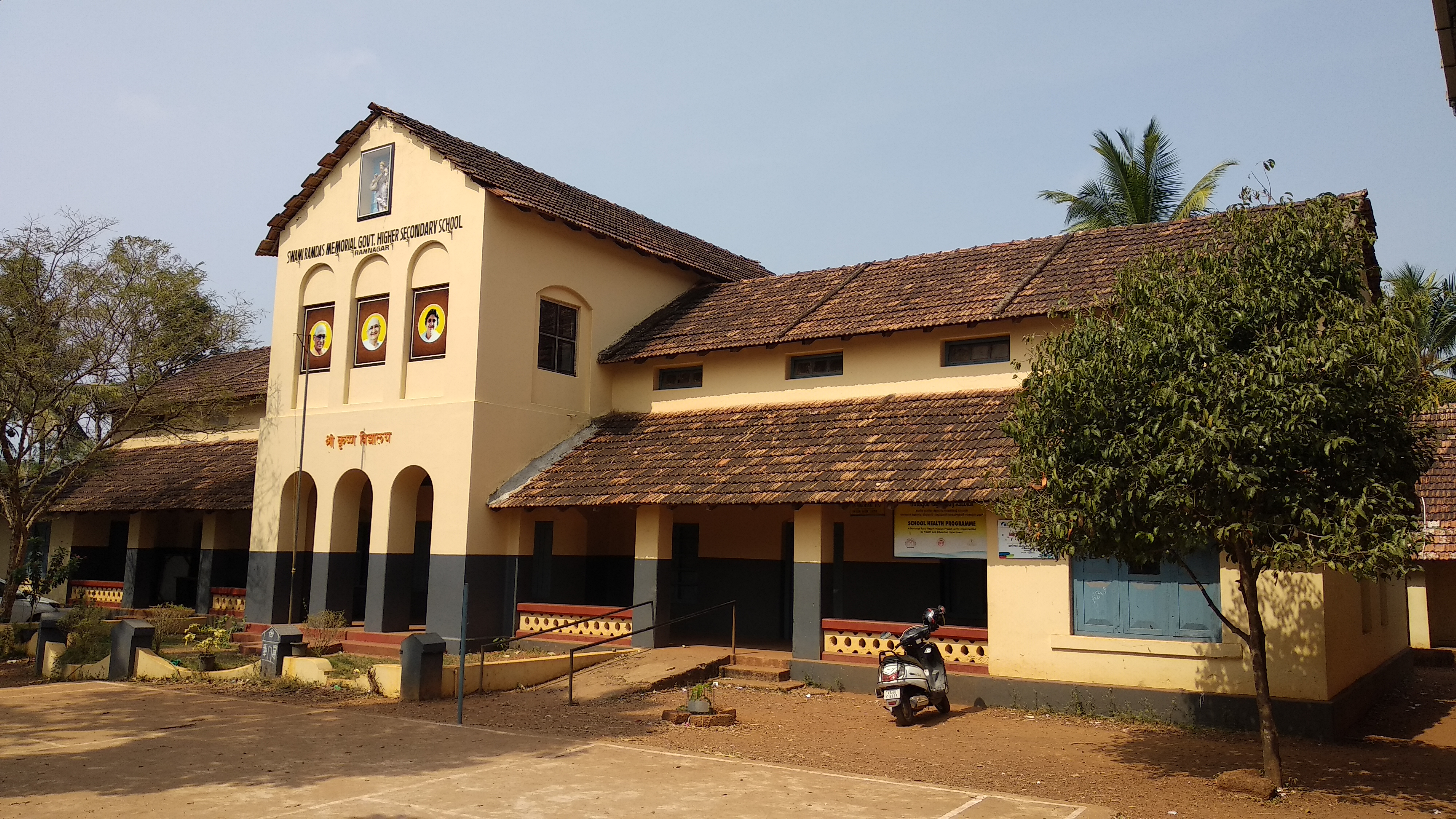 SRMGHSS RAMNAGAR_main building